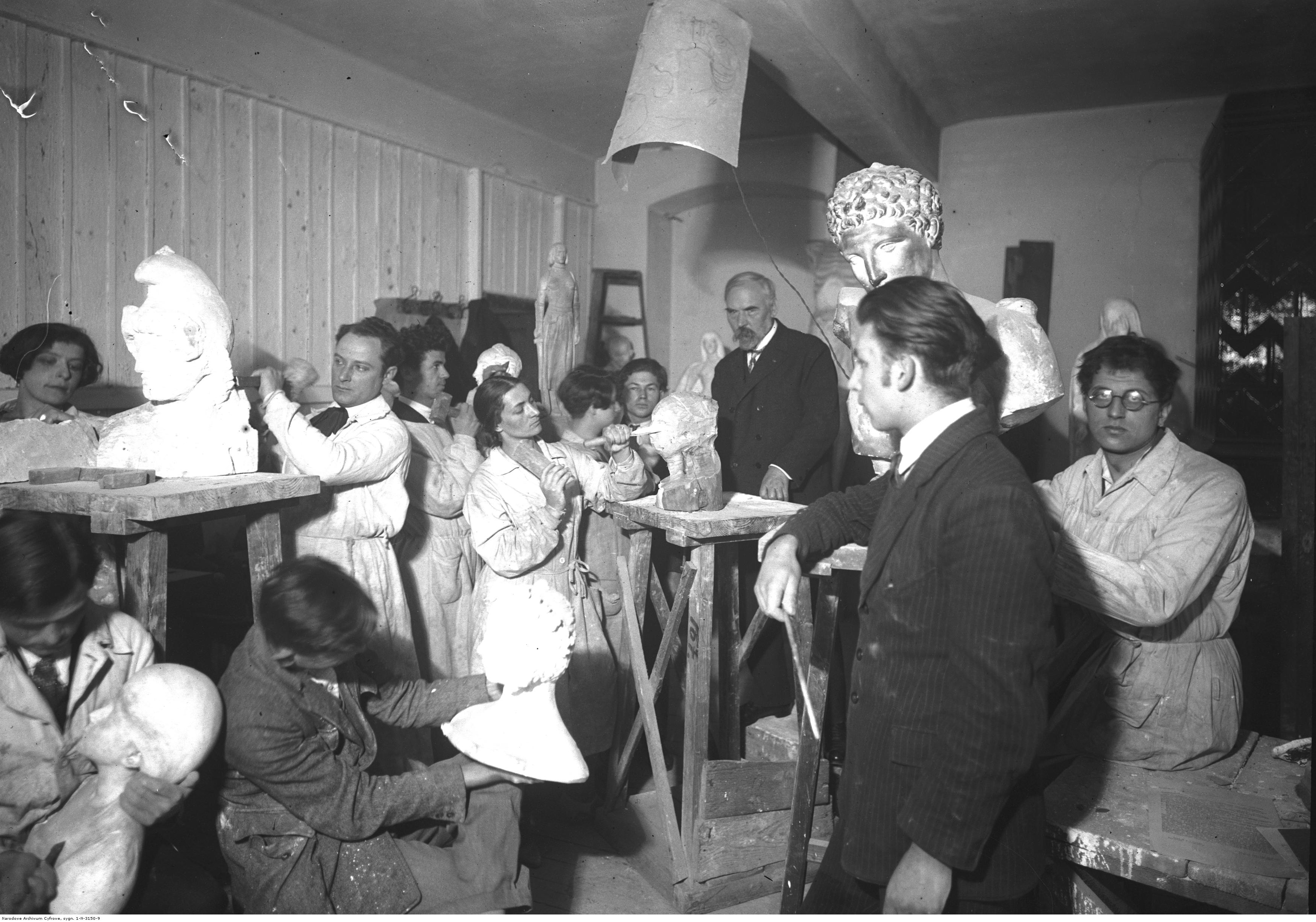 Students in the studio of Professor Konstanty Laszczka